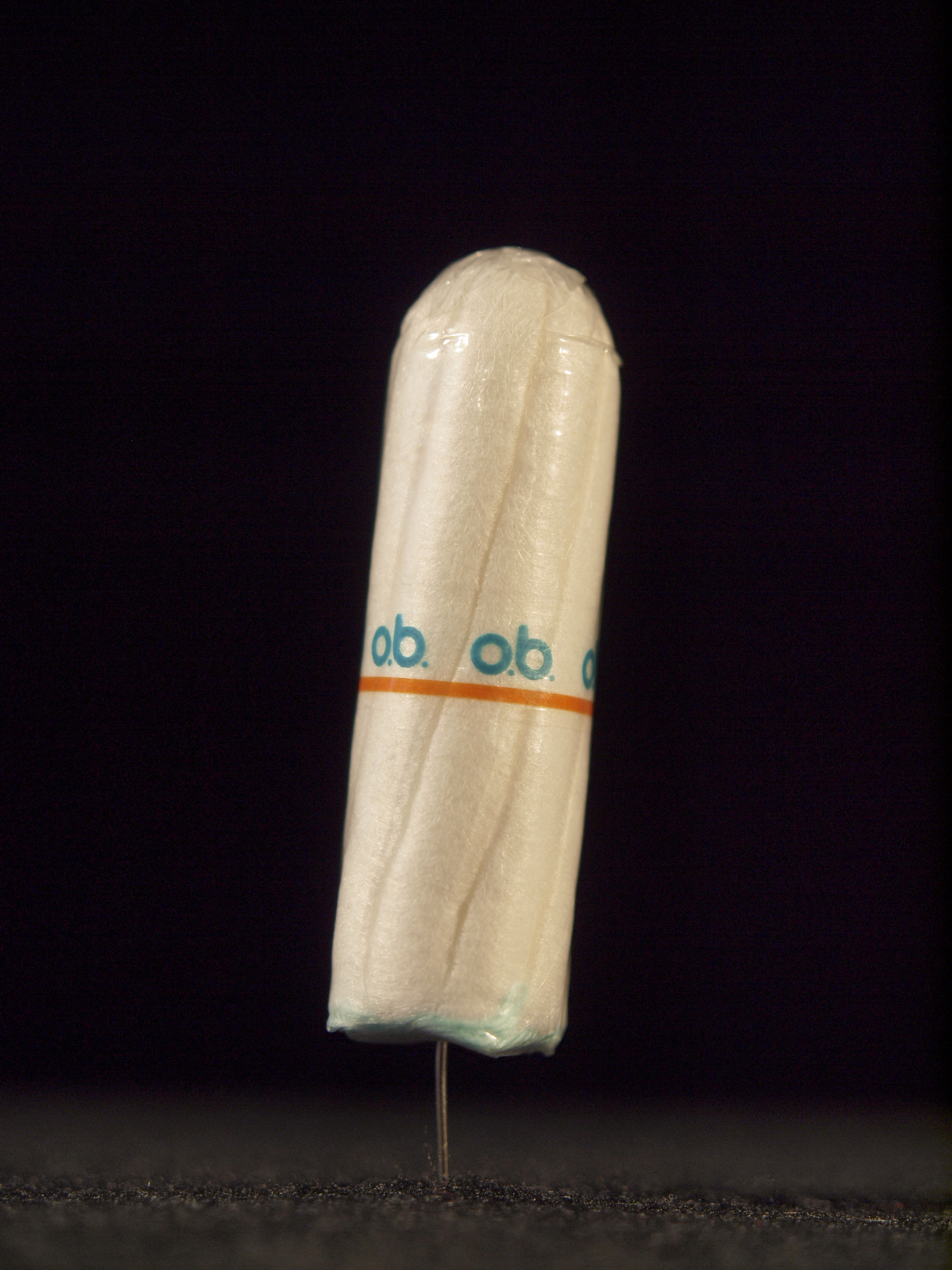 Unprocessed image of ominous o.b. Tampon (This is the automatically created JPG image. The edited image is based, of course on the RAW file)